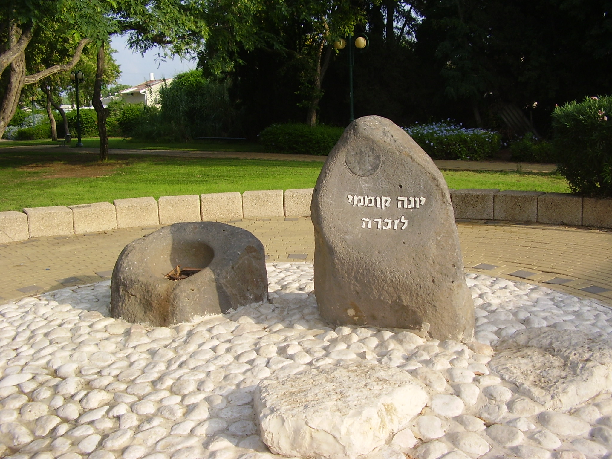 Policewoman Yona Kumami memorial garden in Tel Aviv